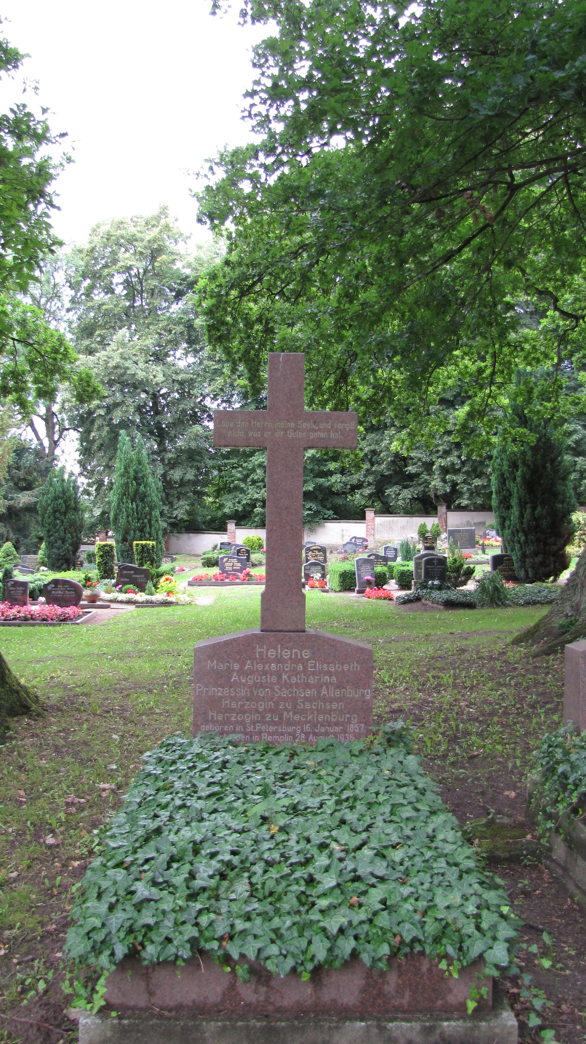 Grave of Helene zu Mecklenburg(-Strelitz), Remplin cemetery